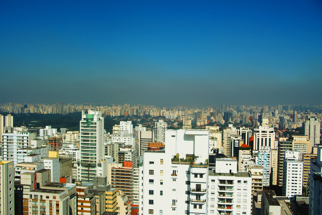 Viewed from a 28th-floor apartment at Alameda Itu Street, São Paulo. Ibirapuera Park can be seen at left.